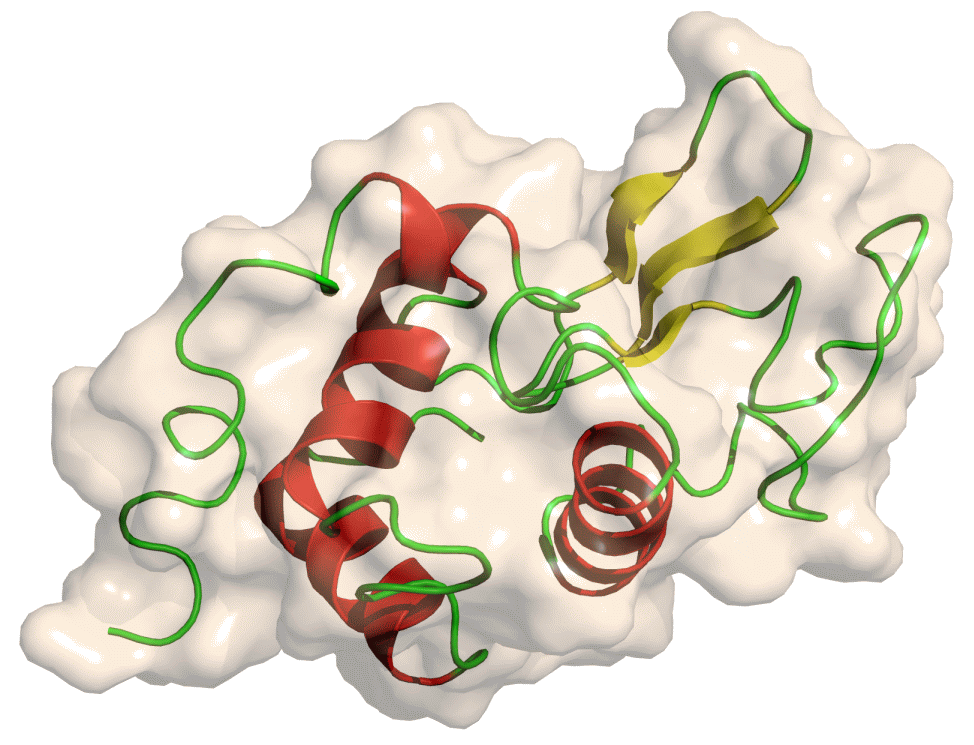 structure of Lysozyme, based on X-ray structure pdb 132L